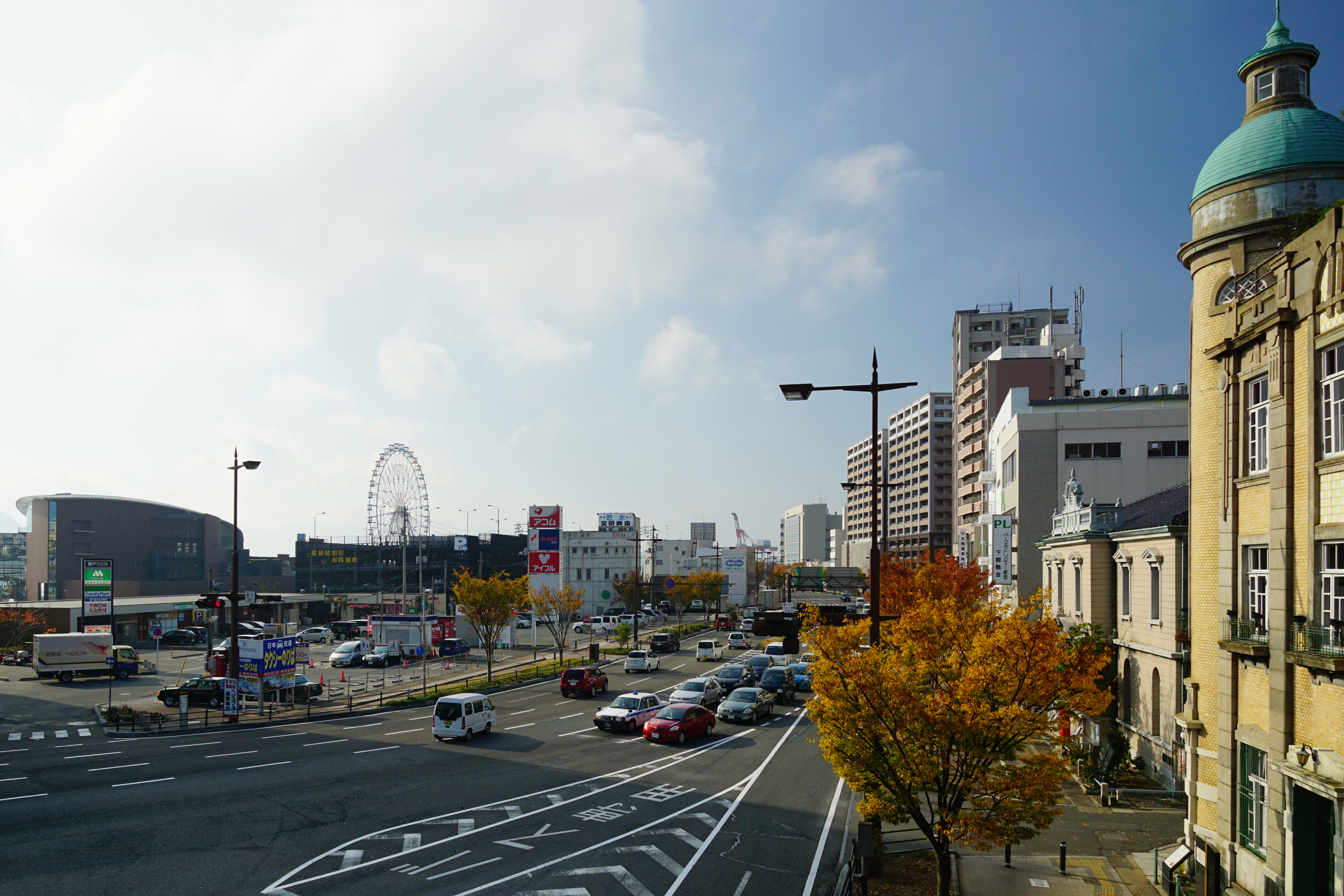 At Karato, Shimonoseki, Yamaguchi prefecture, Japan.